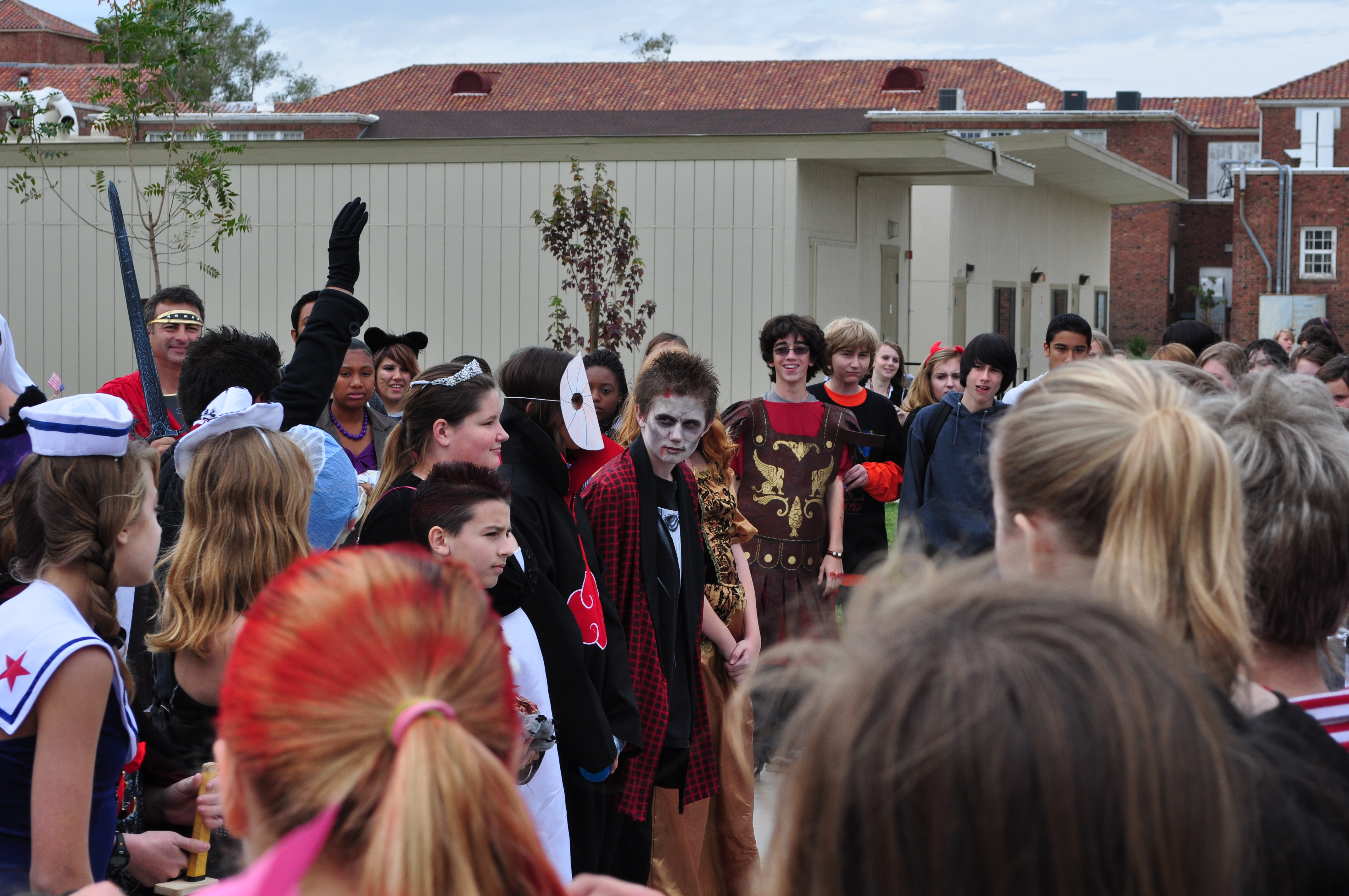 Spirit week at MCAA during Halloween.